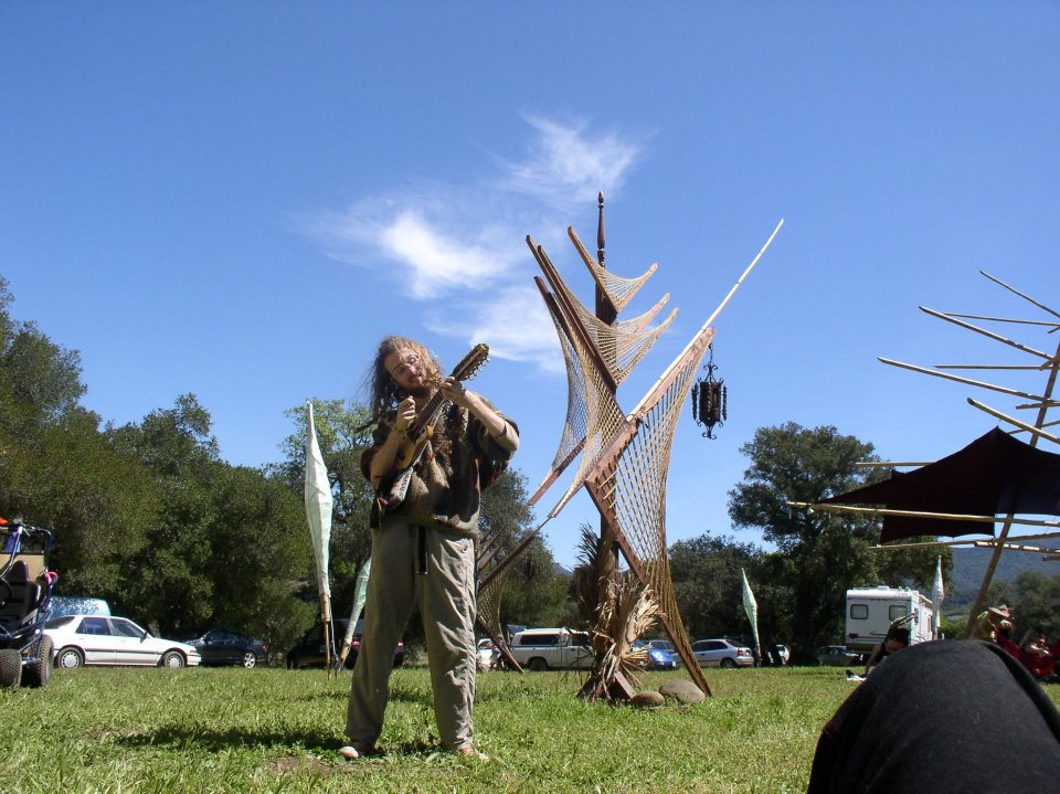 Lucidity Festival 2012. Chris is playing a Chilean instrument. Wikipedia cites it as a charango